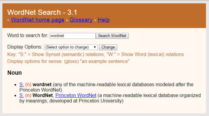 This is an snapshot of WorNet definition of itself.